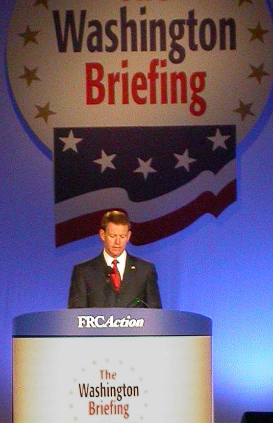 Tony Perkins in 2007 in Washington, DC at the Values Voters conference